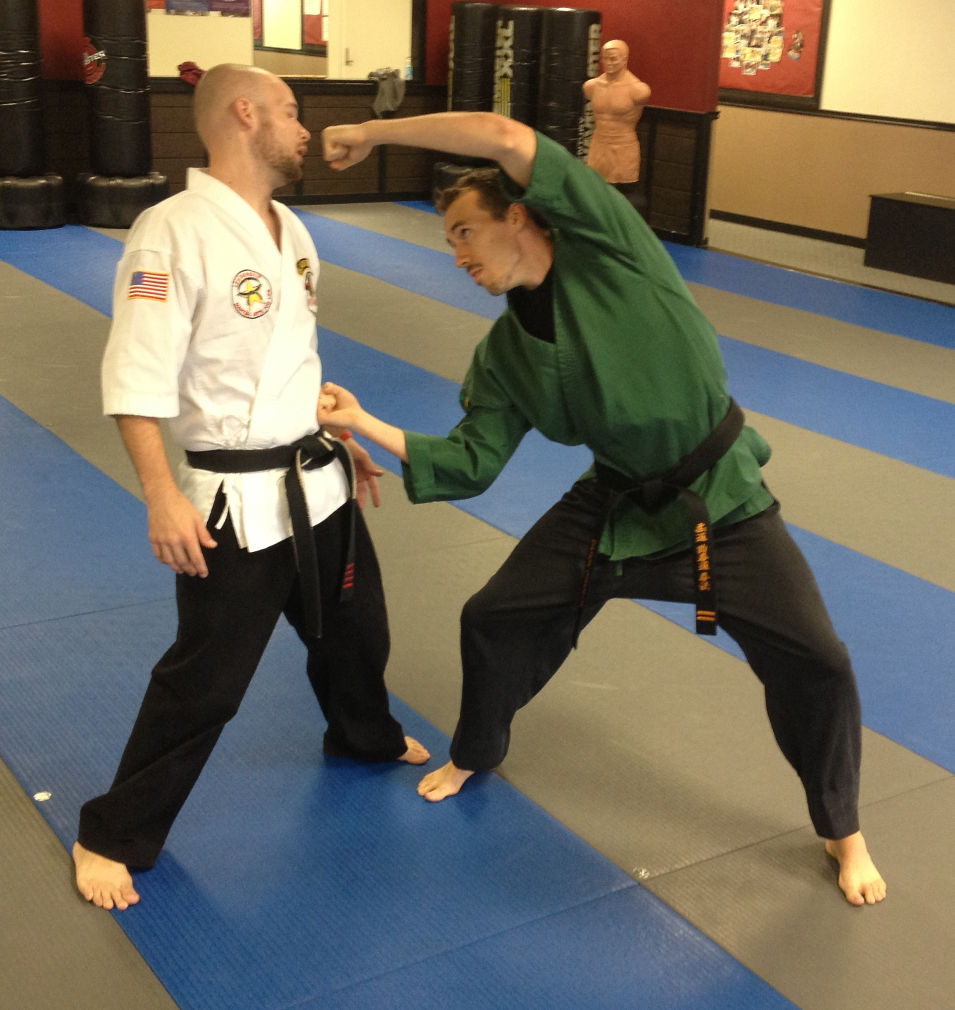 Two martial artists demonstrating an American Kenpo double punch technique.